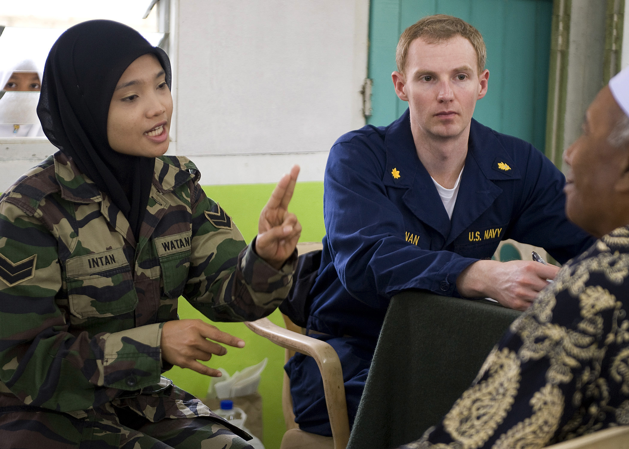 U.S. Navy Lt. Cmdr. Scott Bannan and Malaysian army Cpl. Intan Badri screen a patient during a Cooperation Afloat Readiness and Training Malaysia 2009 medical civil action project at Seberan Tayor Primary School in Kuantan, Malaysia, on June 24, 2009. Cooperation Afloat Readiness and Training is a series of bilateral exercises held annually in Southeast Asia to strengthen relationships and enhance the operational readiness of the participating forces. DoD photo by Petty Officer 1st Class Michael Moriatis, U.S. Navy. (Released)